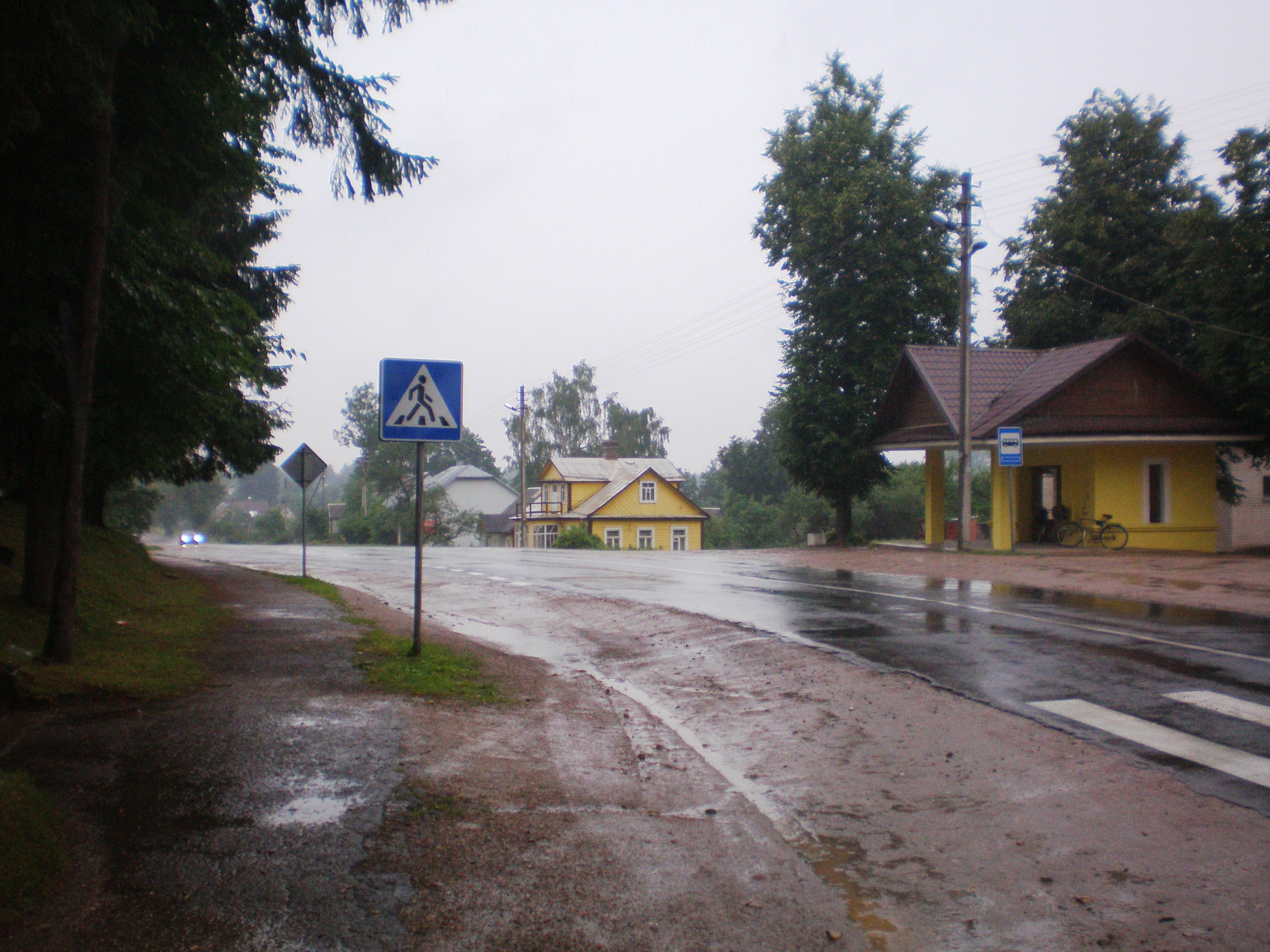 Leliūnai town, Lithuania